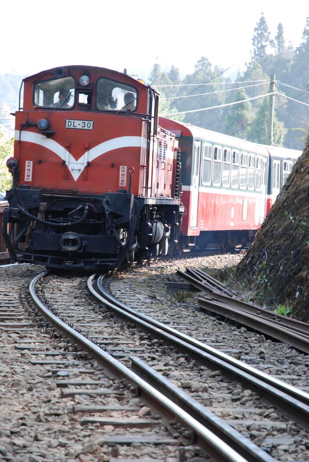 Alishan Forest Railway Diesel locomotive DL-30